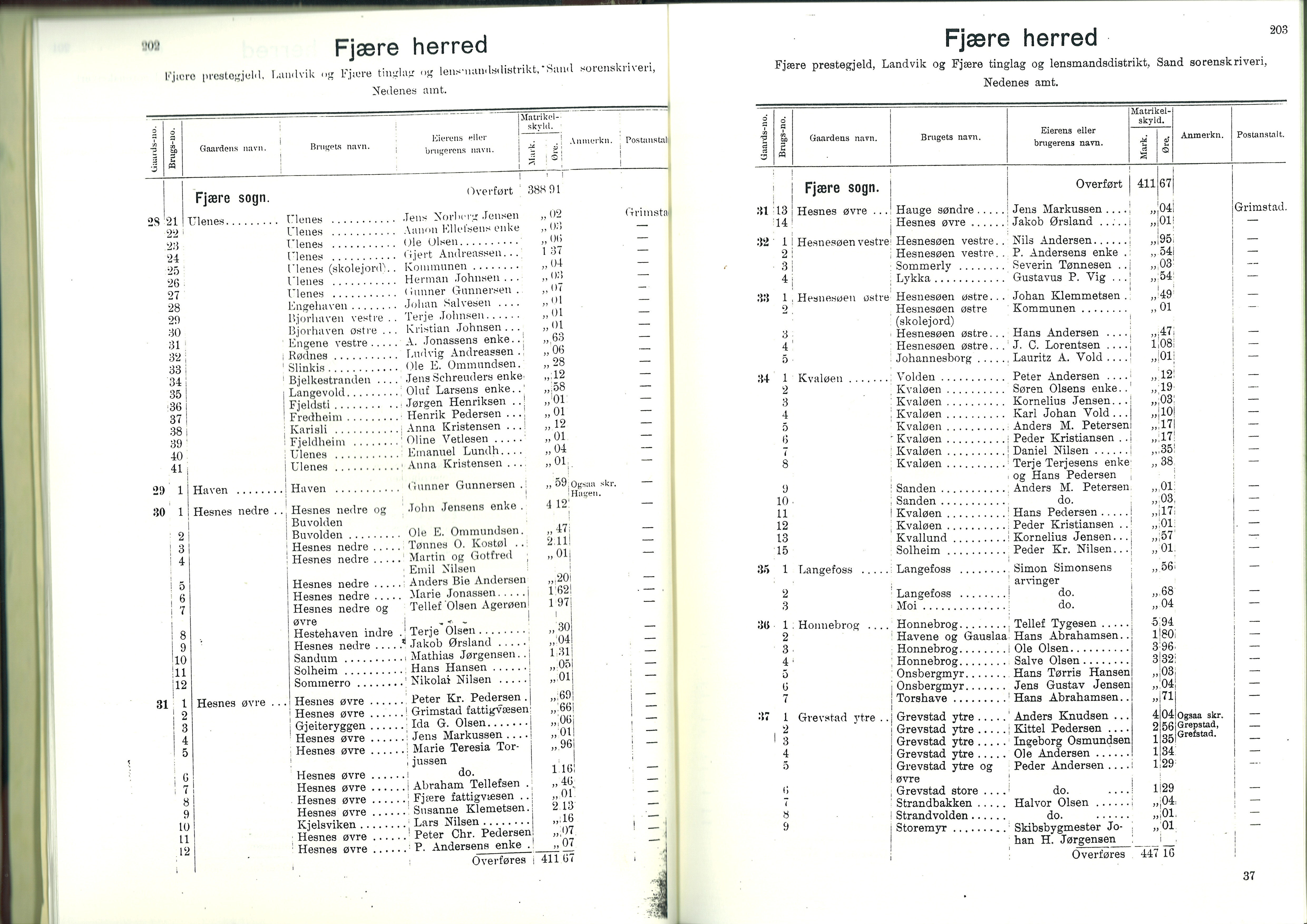 Part of "Matrikkel", Noway, 1905